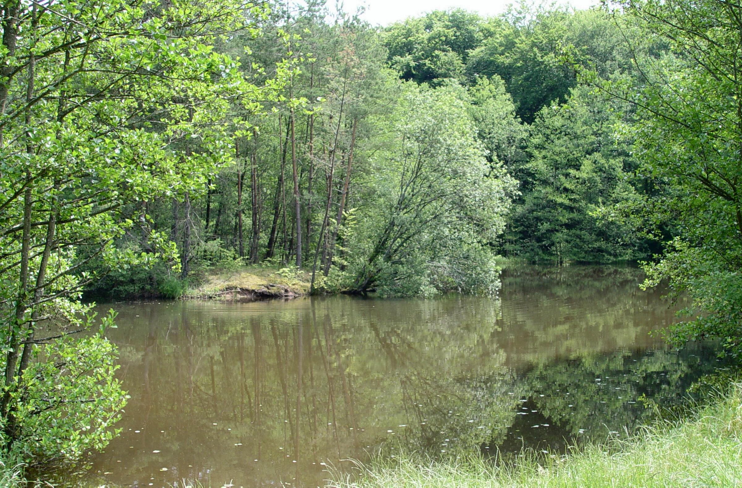 Natural reserve 00235.01 Altenbachgrund, near Aschaffenburg (Germany), the Sangenbach fills the "Sand Lake" with island before flowing into the Altenbach.